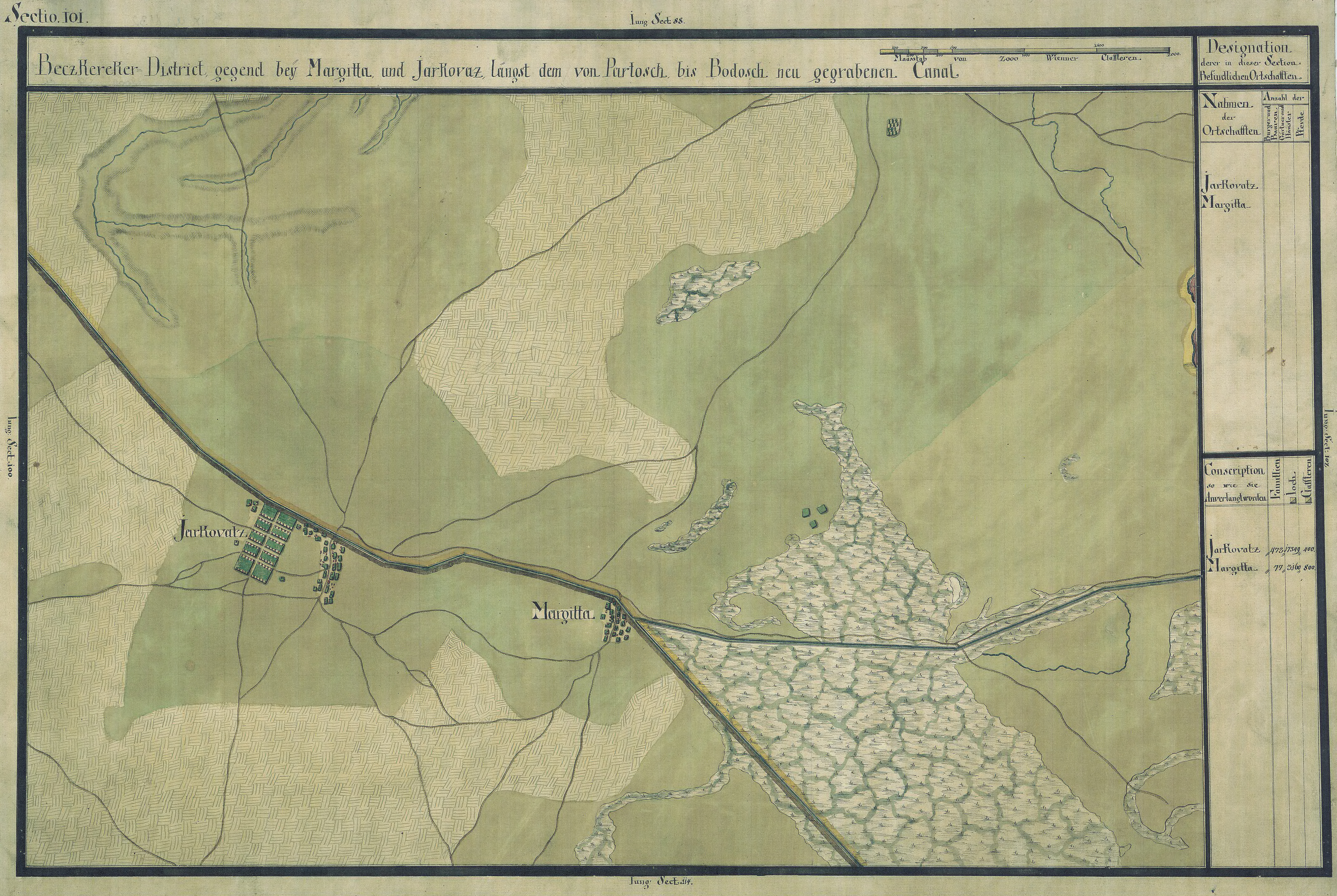 The Banat region in the cadastral maps: Josephinische Landesaufnahme, 1769-72. Josephinische Landaufnahme pg101